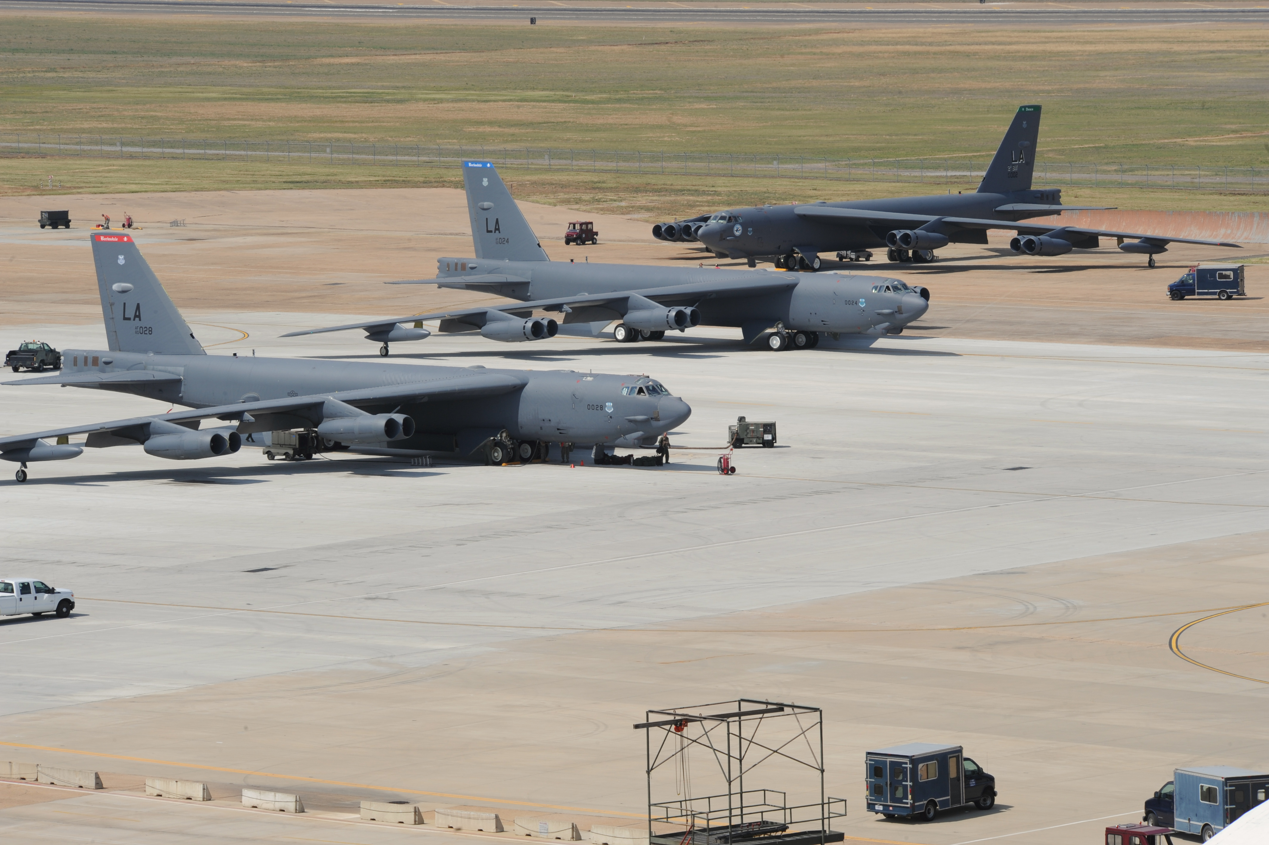 Three B-52H Stratofortress bombers sit on the flightline during an exercise at Barksdale Air Force Base, La., June 5. The exercise highlighted the 2nd Bomb Wing's ability to respond quickly and perform its mission efficiently.